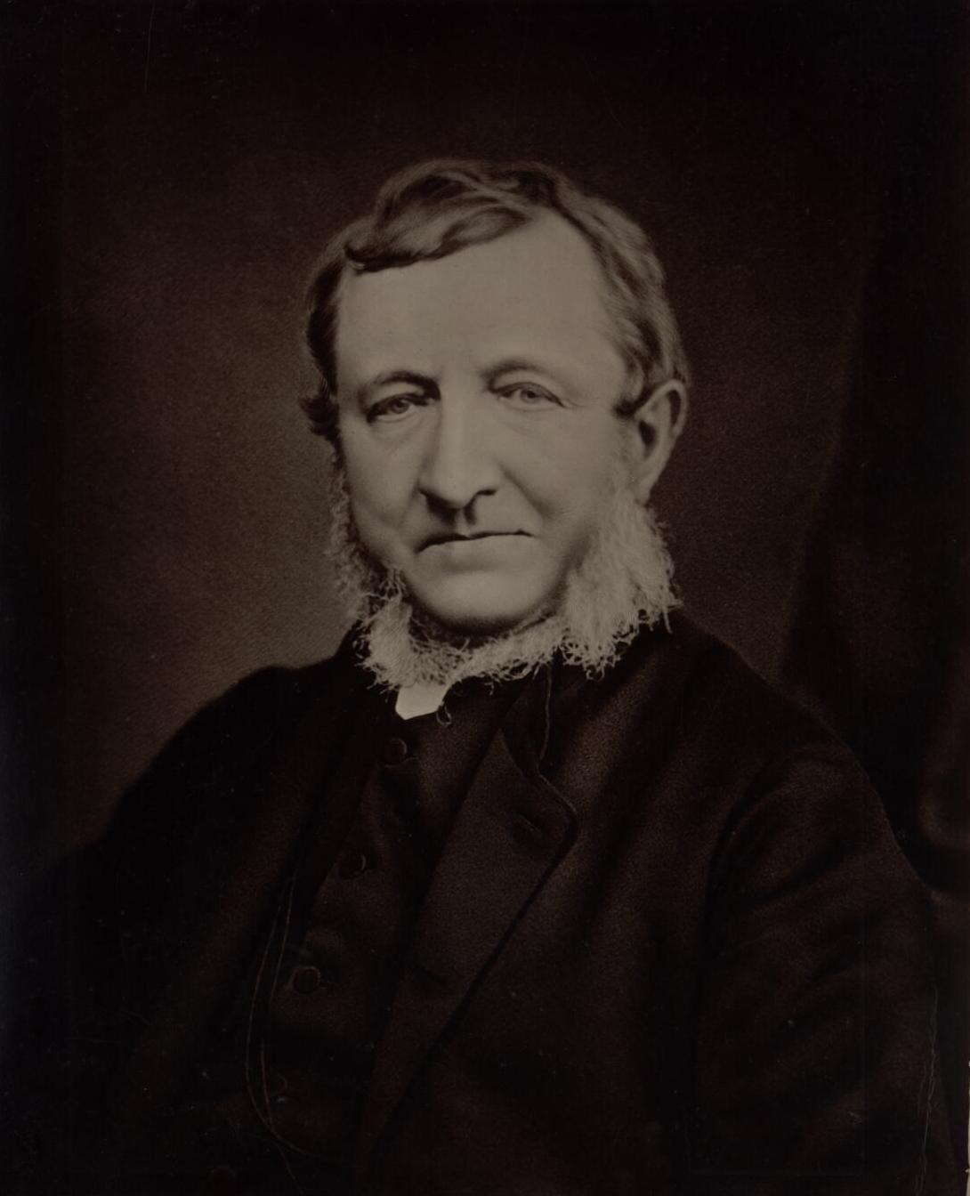 A portrait from the Welsh Portrait Collection at the National Library of Wales. Depicted person: David Charles – British minister (1812–1878)